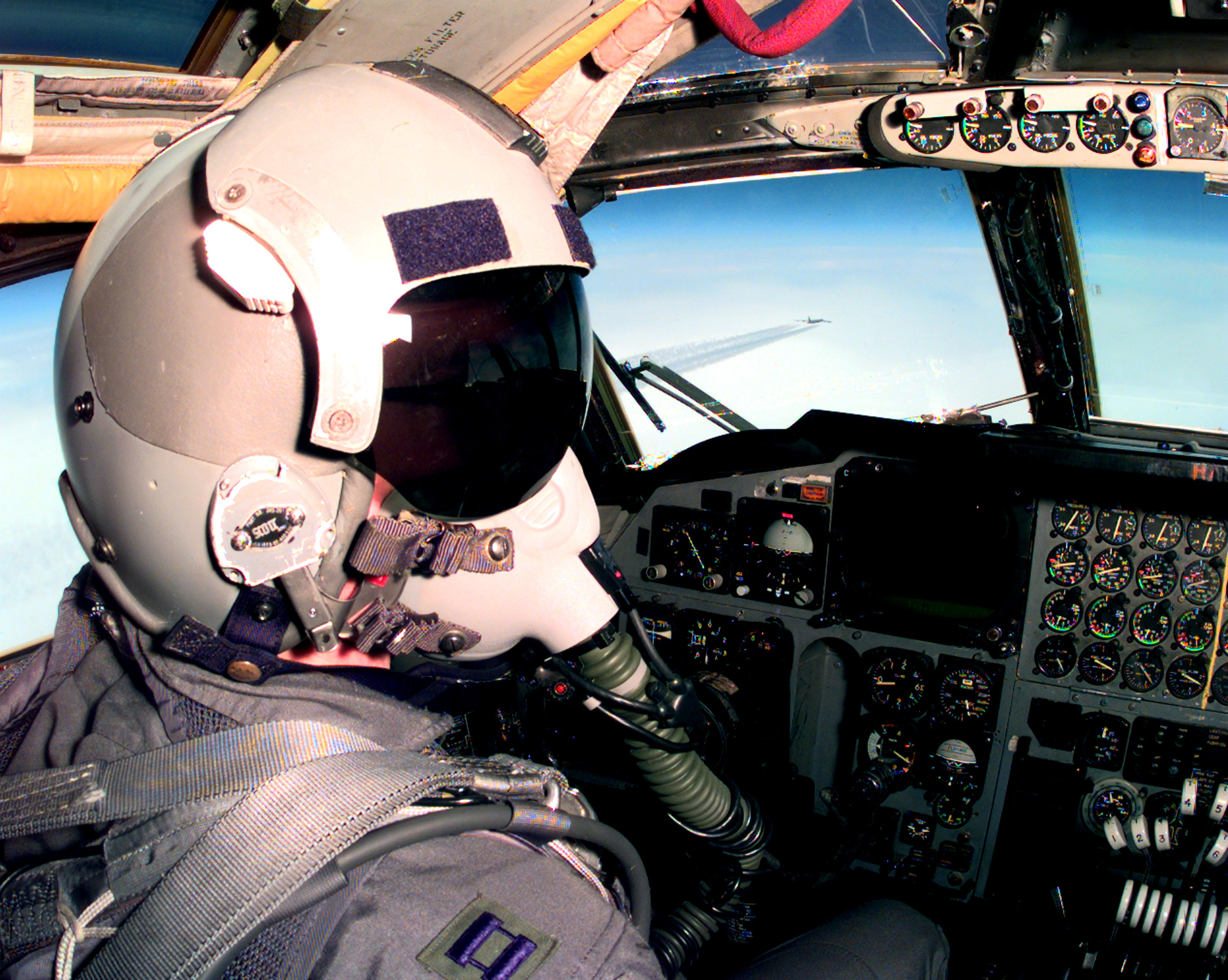 A pilot of a U.S. Air Force B-52H Stratofortress scans the horizon for aircraft as he flies in formation with another B-52 on a combat penetration mission toward a target in Kosovo in support of NATO Operation Allied Force on May 26, 1999. Operation Allied Force is the air operation against targets in the Federal Republic of Yugoslavia. The Stratofortress and its crew are deployed to RAF Fairford, England, from the 96th Bomb Squadron, 2nd Bomb Wing, Barksdale Air Force Base, La., for Operation Allied Force.